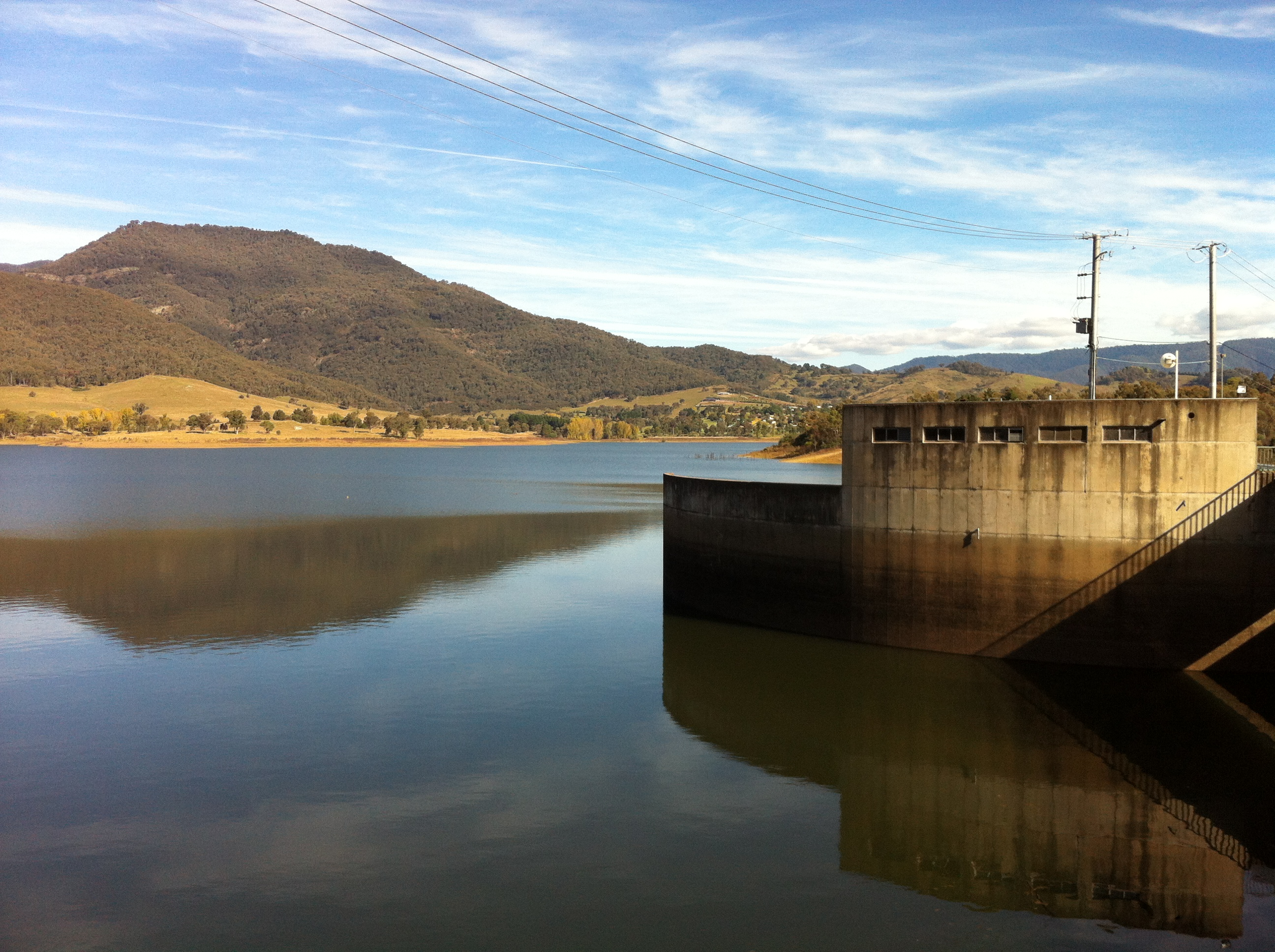 Talbingo Township from Jounama Dam, NSW.